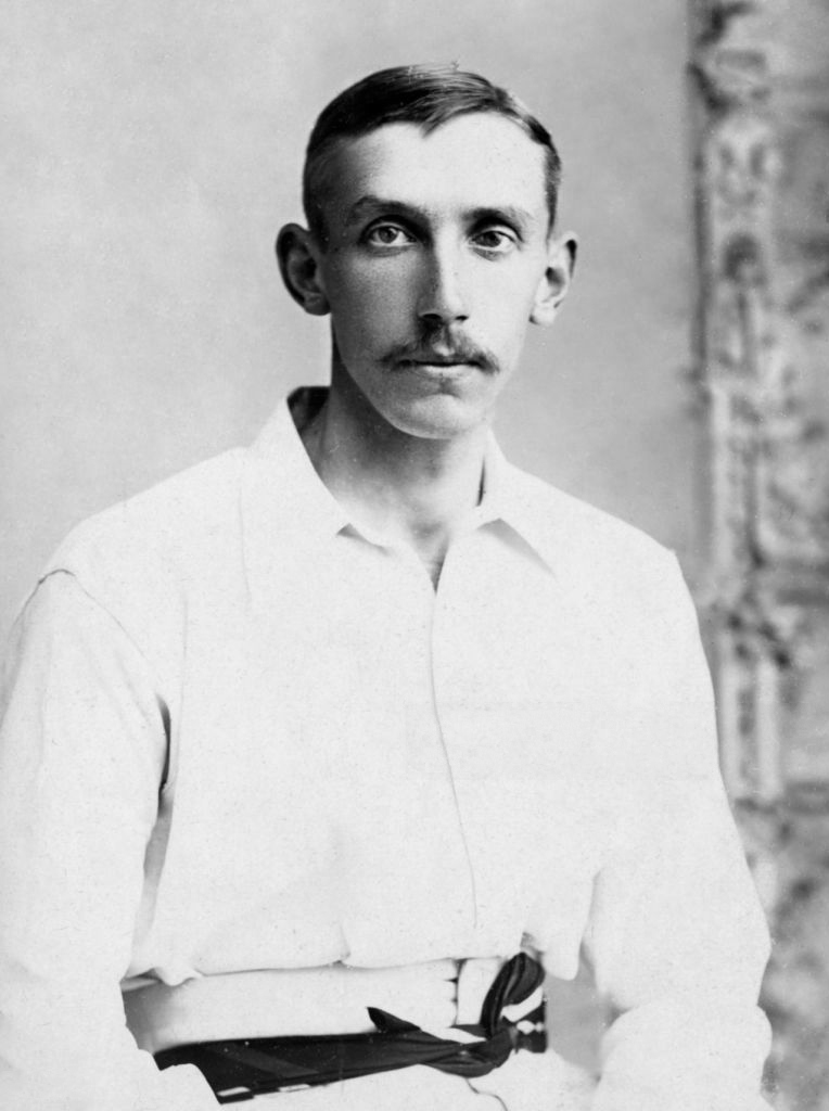 Australian cricketer Hugh Trumble photographed in Vancouver during their Tour of the USA and Canada, circa 1893.